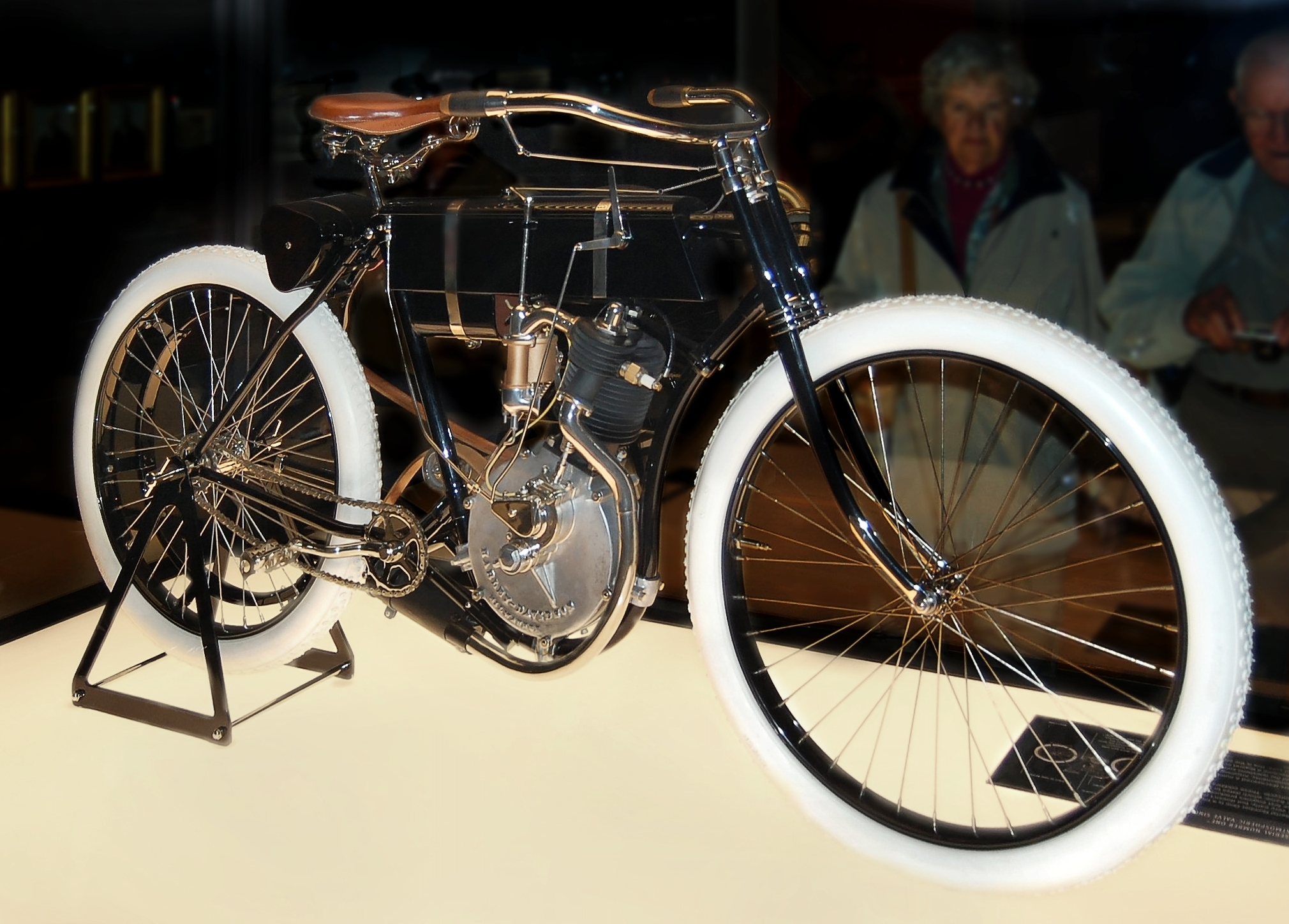 "Serial Number One", the very first Harley-Davidson motorcycle, displayed at the Harley-Davidson Museum in Milwaukee, WI.